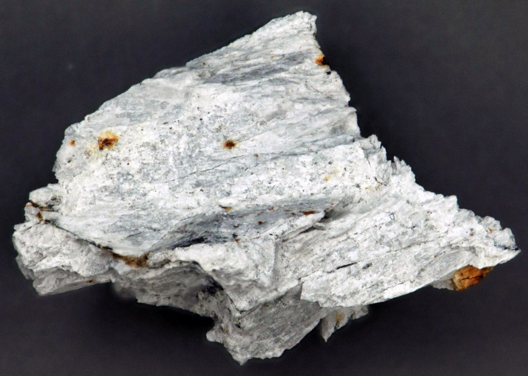 Bishopville meteorite fragment, aubrite, 2.2 cm across.